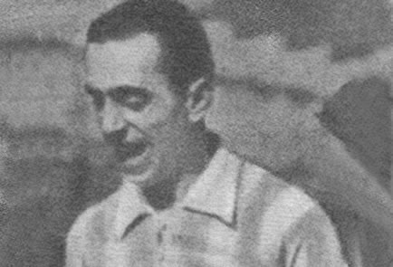 Fernando Paternoster during his time as a Racing Club player